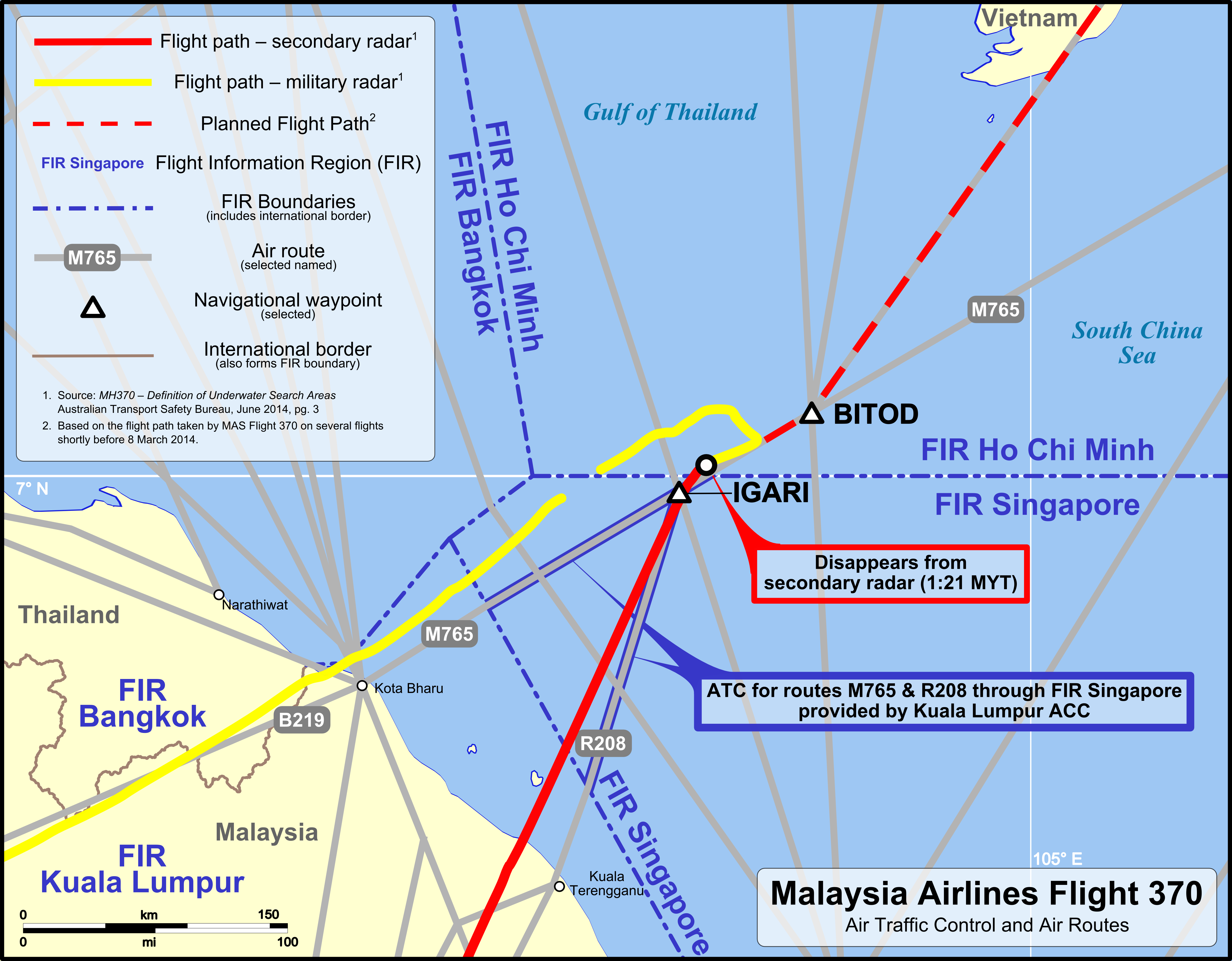 Map of the path taken by Malaysia Airlines Flight 370, with a focus on Flight Information Regions (the responsible air traffic control authority). Air routes and possible diversion airfields (runway over 5000 ft) are also depicted.